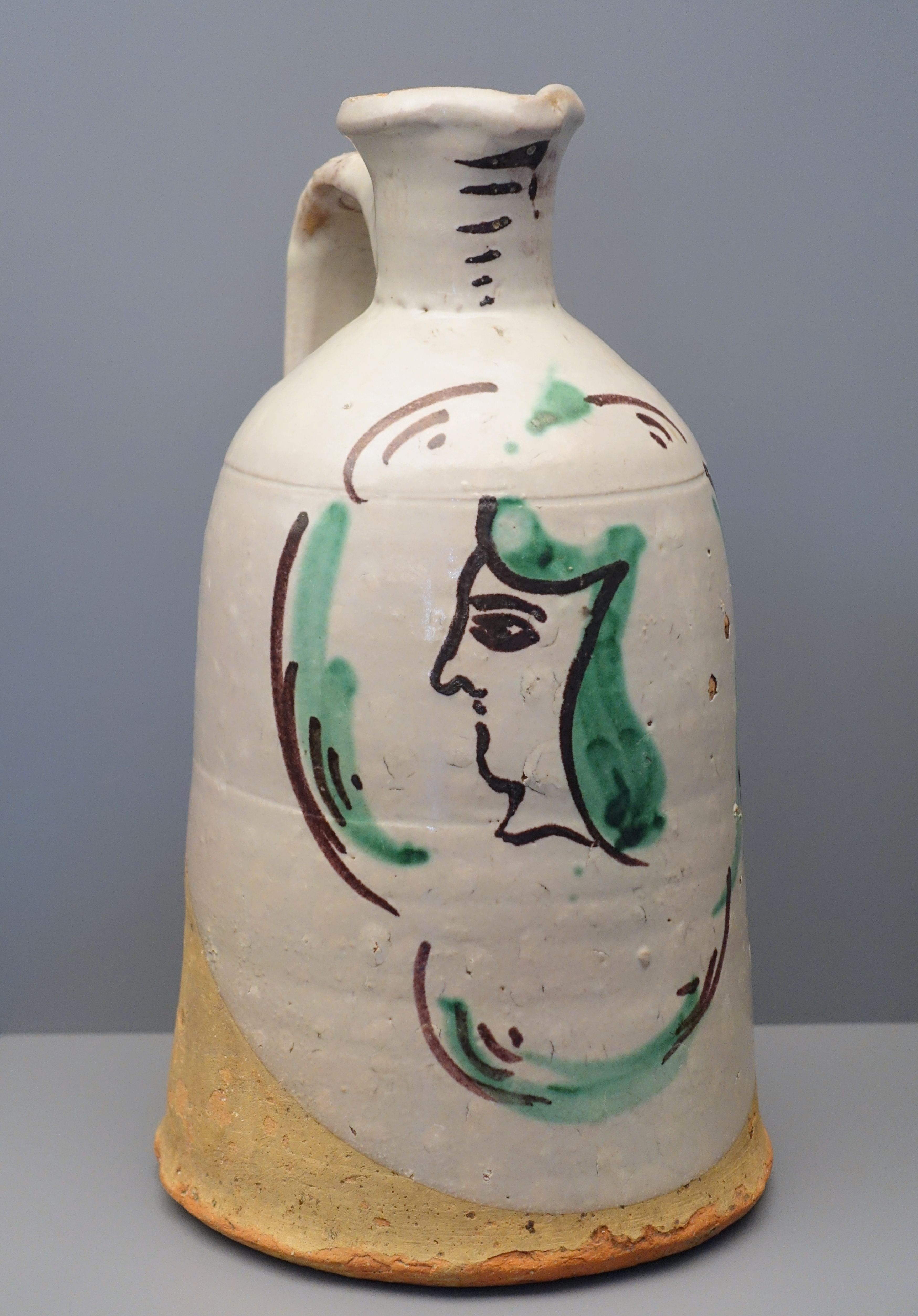 Exhibit in the Museo Nacional de Artes Decorativas, Madrid, Spain. This work is in the public domain because the artist died more than 100 years ago.